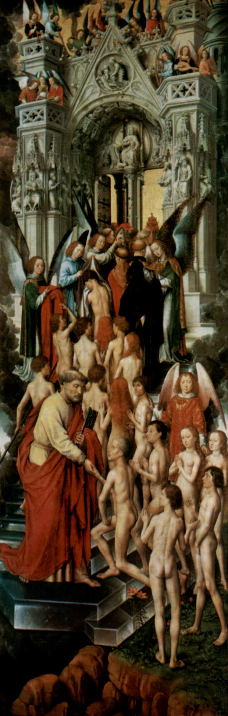 triptych, left wing (inner): The Blessed at the gate to heaven (Paradise) with the St. Peter.